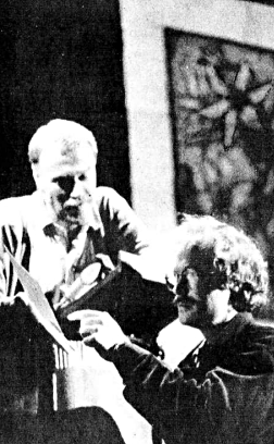 Norwegian actor Ola B. Johannessen and author Knut Ødegård before a performance in Erkebispegården in Trondhjem, Norway.